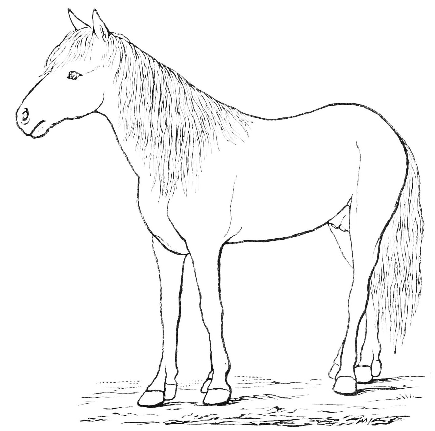 Outline of horse with extra digit on each foot